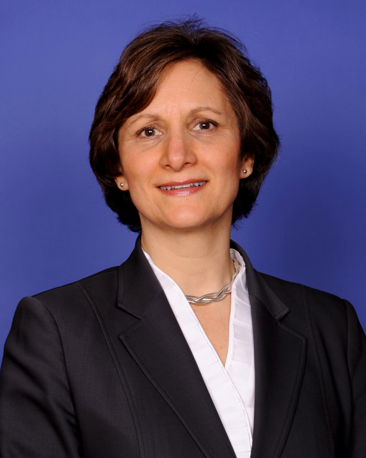 Official portrait of Congresswoman Suzanne Bonamici.